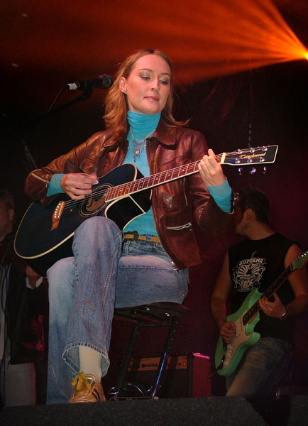 Polish singer and musician Anita Lipnicka.